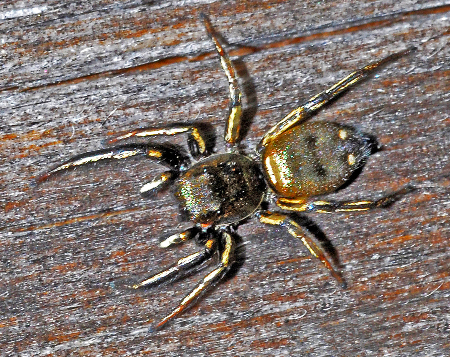 Heliophanus cf. cupreus, male. Soucheres Basses, Turin, Italy